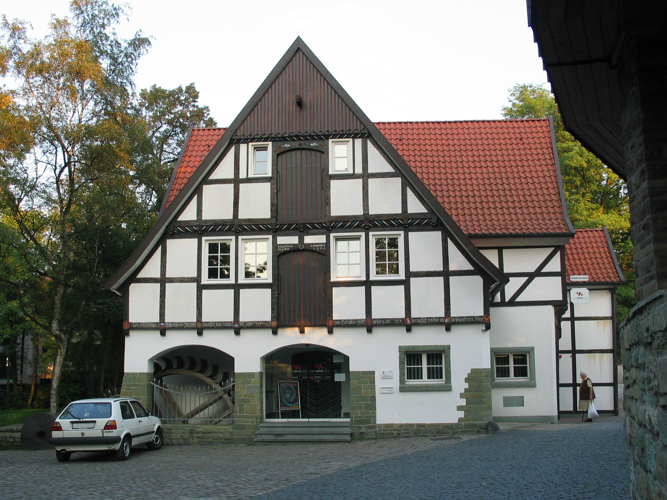 The Teichsmühle in Soest, Germany.